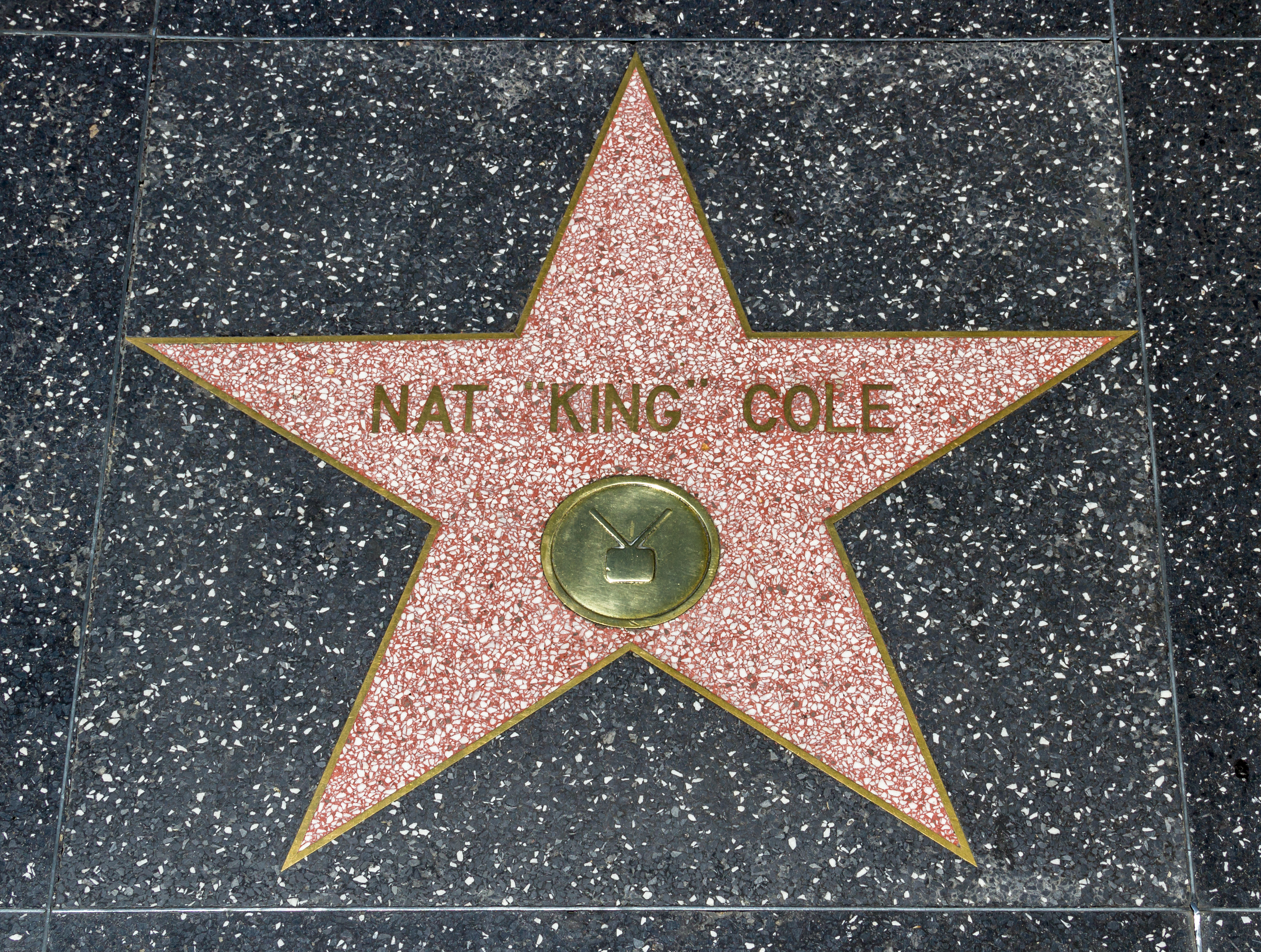 Star “Nat King Cole” at the Hollywood Boulevard in Los Angeles, California, USA